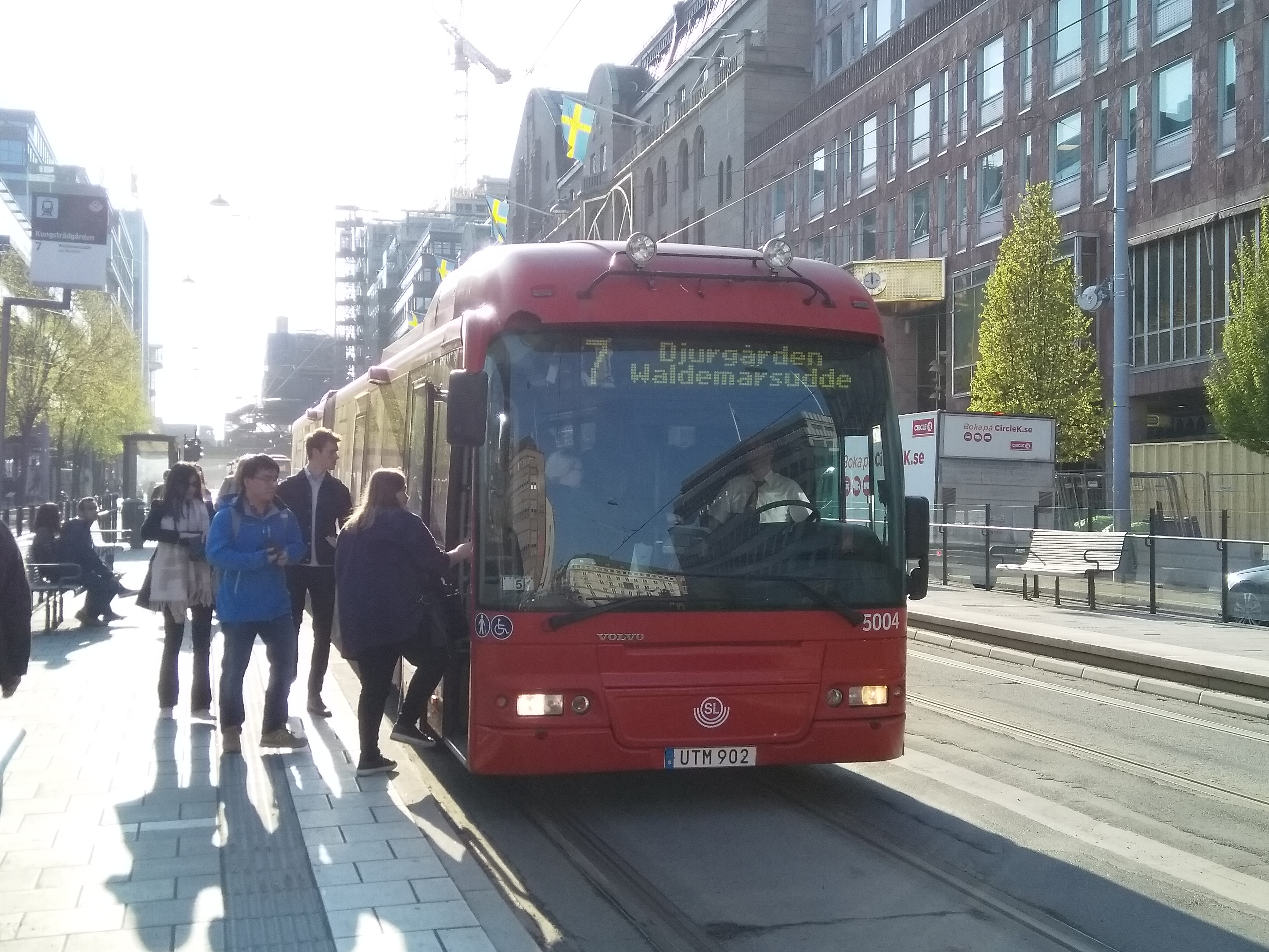 Spårväg City is a tramway serviced by tram line 7, but buses are also running on the same line